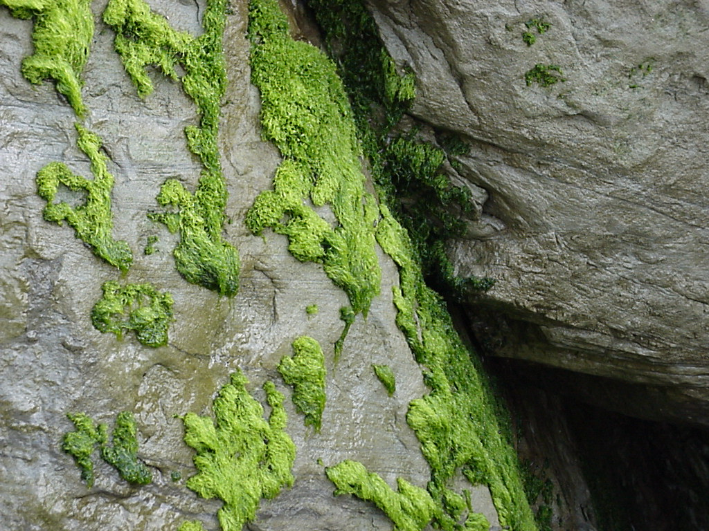 The beach at Newport Ore., 2002.